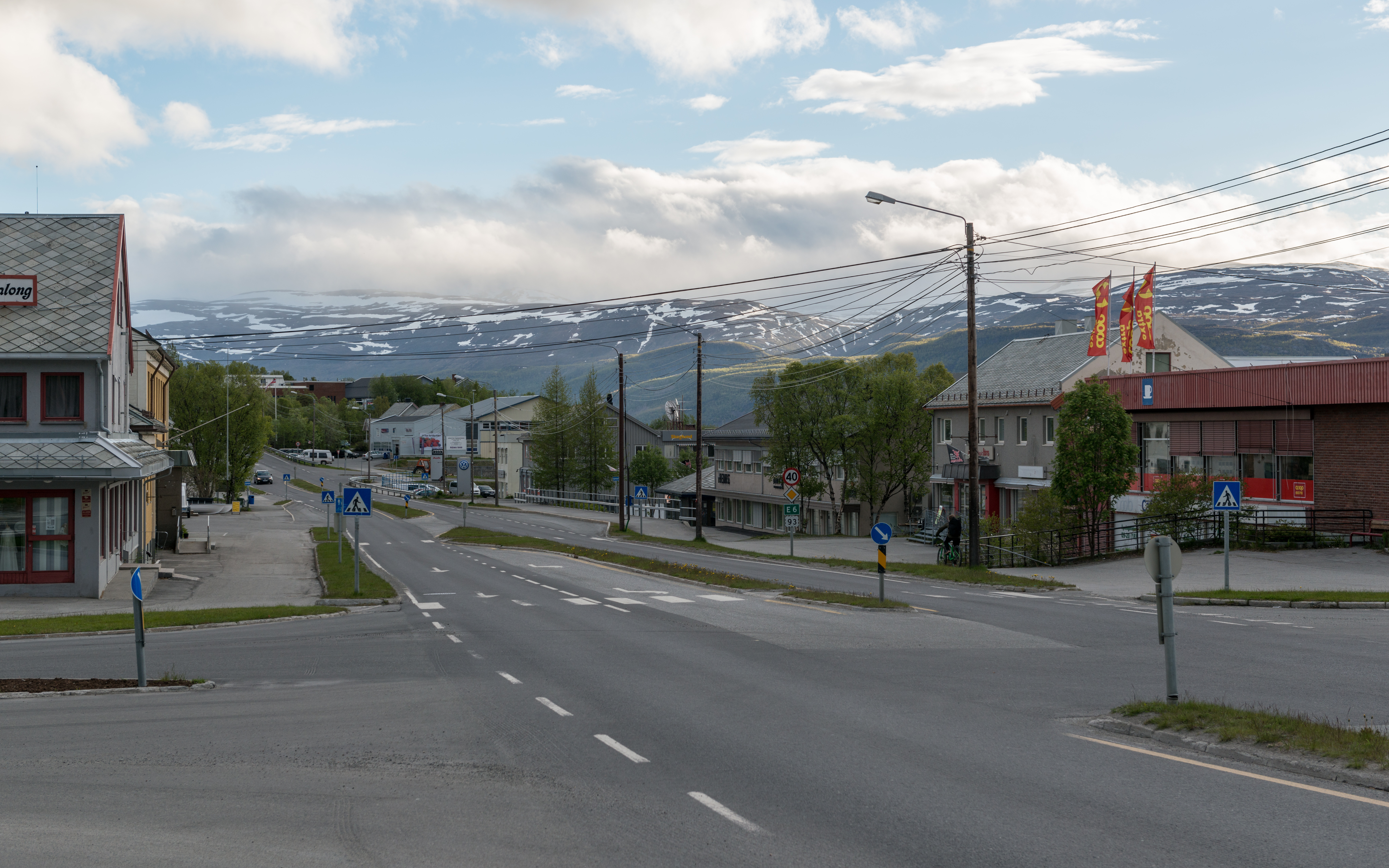 View of Altaveien, Bossekop, View towards west